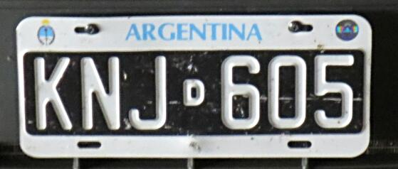 Argentinian registration plate